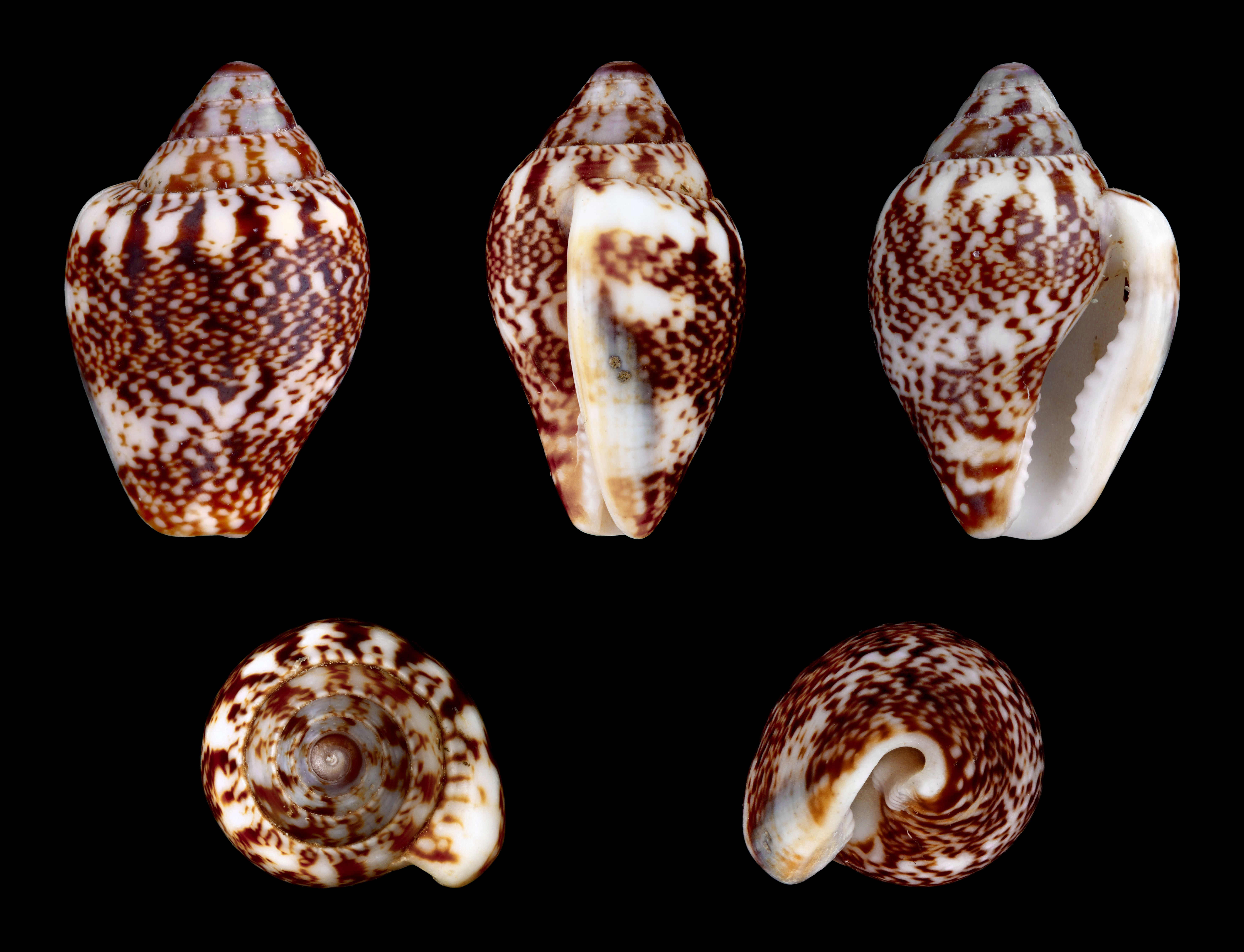 Rustica Dove Shell; Length 1.6 cm; Originating from the Mediterranean, Tolari, Kos, Greece 36°48′30.89″N 27°10′23.06″E / 36.8085806°N 27.1730722°E; Shell of own collection, therefore not geocoded. Dorsal, lateral (right side), ventral, back, and front view.